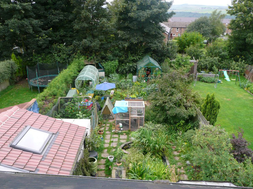 Claire Gregorys suburban permaculture garden in Sheffield, UK, 2009